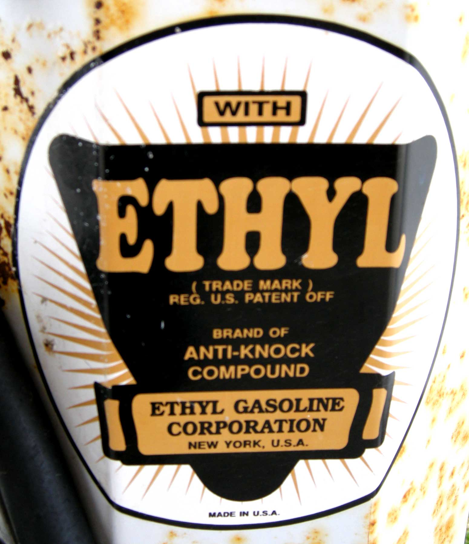 Sign on an antique gasoline pump, advertising gasoline additive (tetraethyl lead) by the Ethyl Corporation. Photo taken at the highway rest stop on I-94 westbound, east of Bismarck, North Dakota, USA.